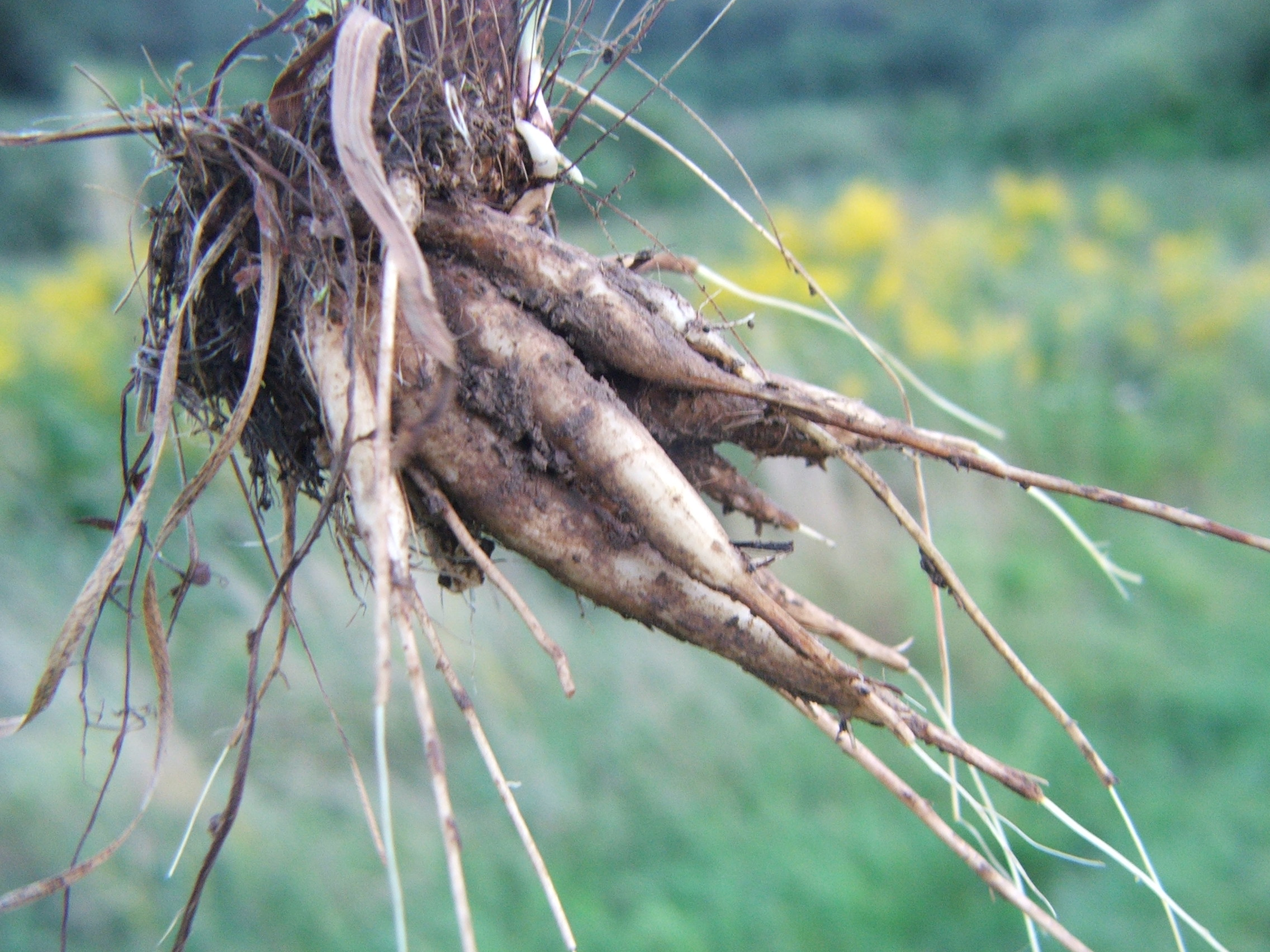 Roots of Cirsium canum